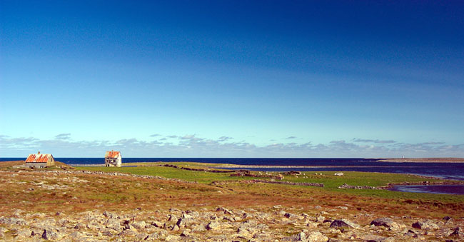 picture of "the abandoned farm named Skinnalón"